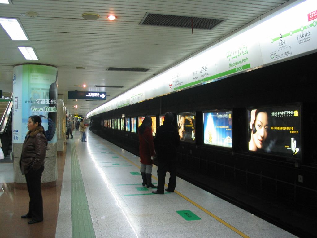 中山公園站-2號線月台 Line 2 Platform of Zhongshan Park Station